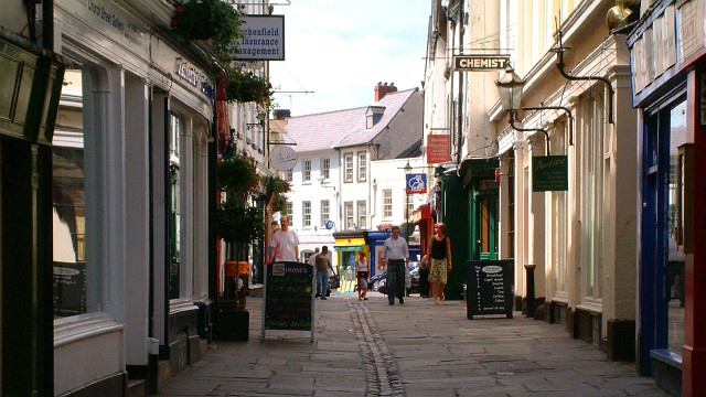 Church Street, Monmouth Church Street looking towards the junction of Monnow and Priory Streets. See also image 307855.